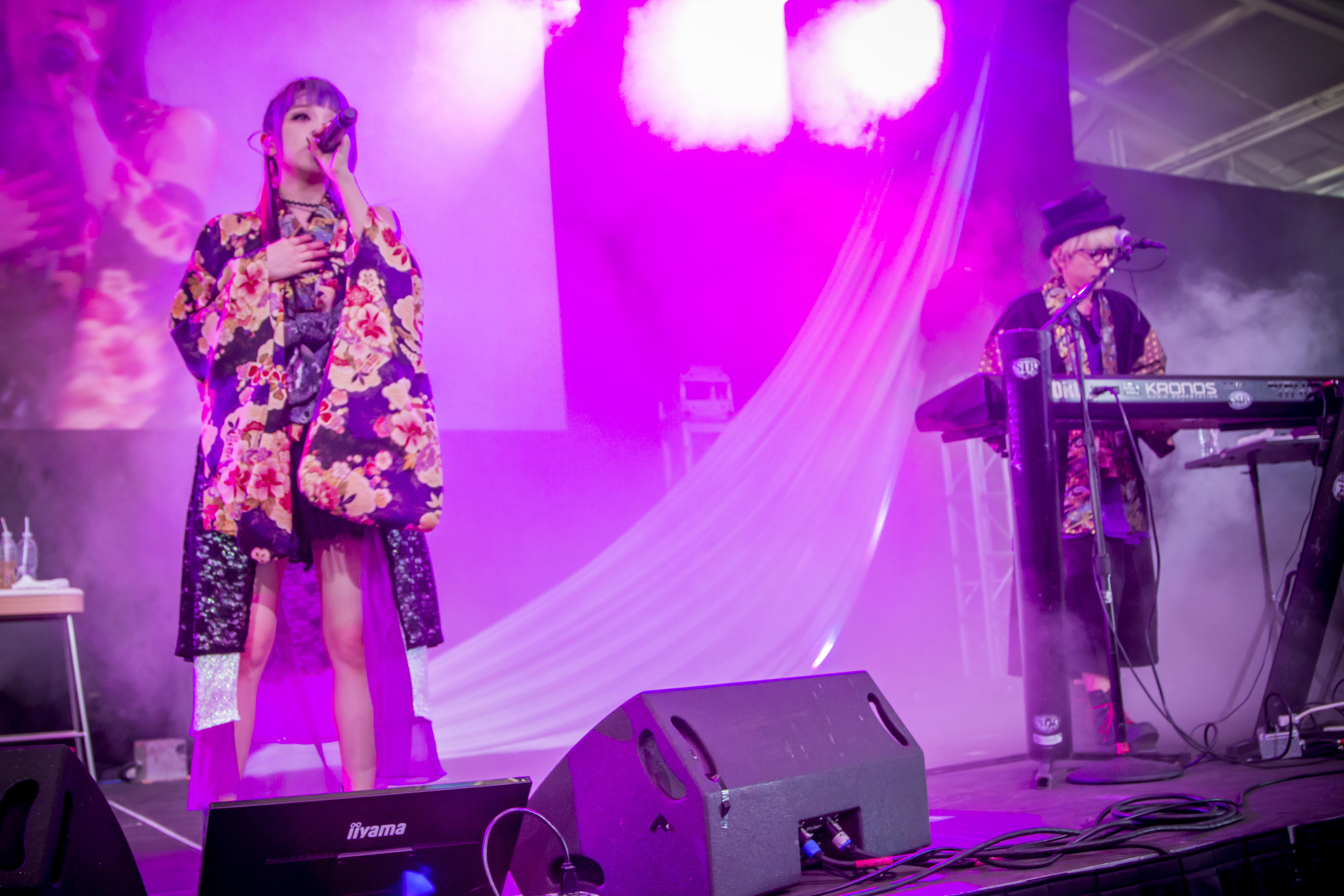 An image of the band GARNiDELiA at the 2016 J-Pop Summit